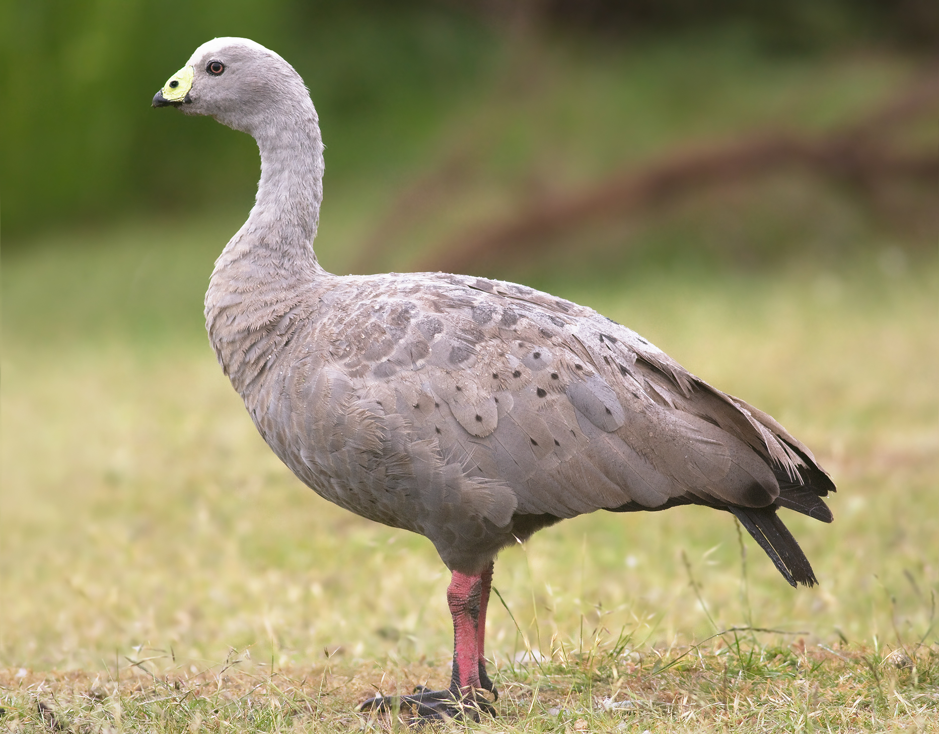 Cape Barren Goose (Cereopsis novaehollandia), Maria Island, Tasmania, Australia